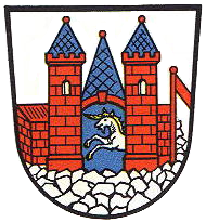 Coat of arms of Lichtenberg, Oberfranken.